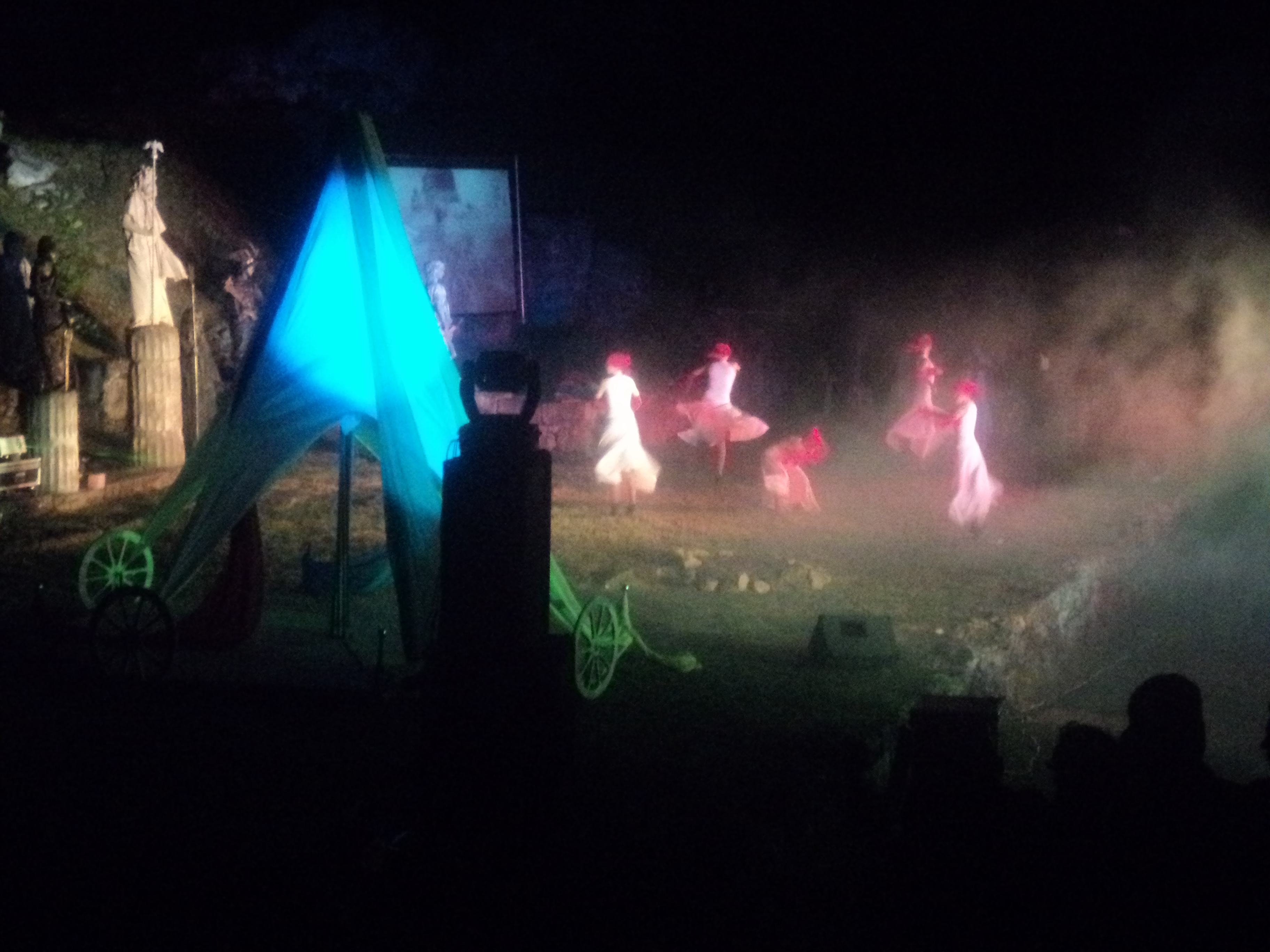 Bosporian Agon festival in Kerch, Ukraine, June 2012